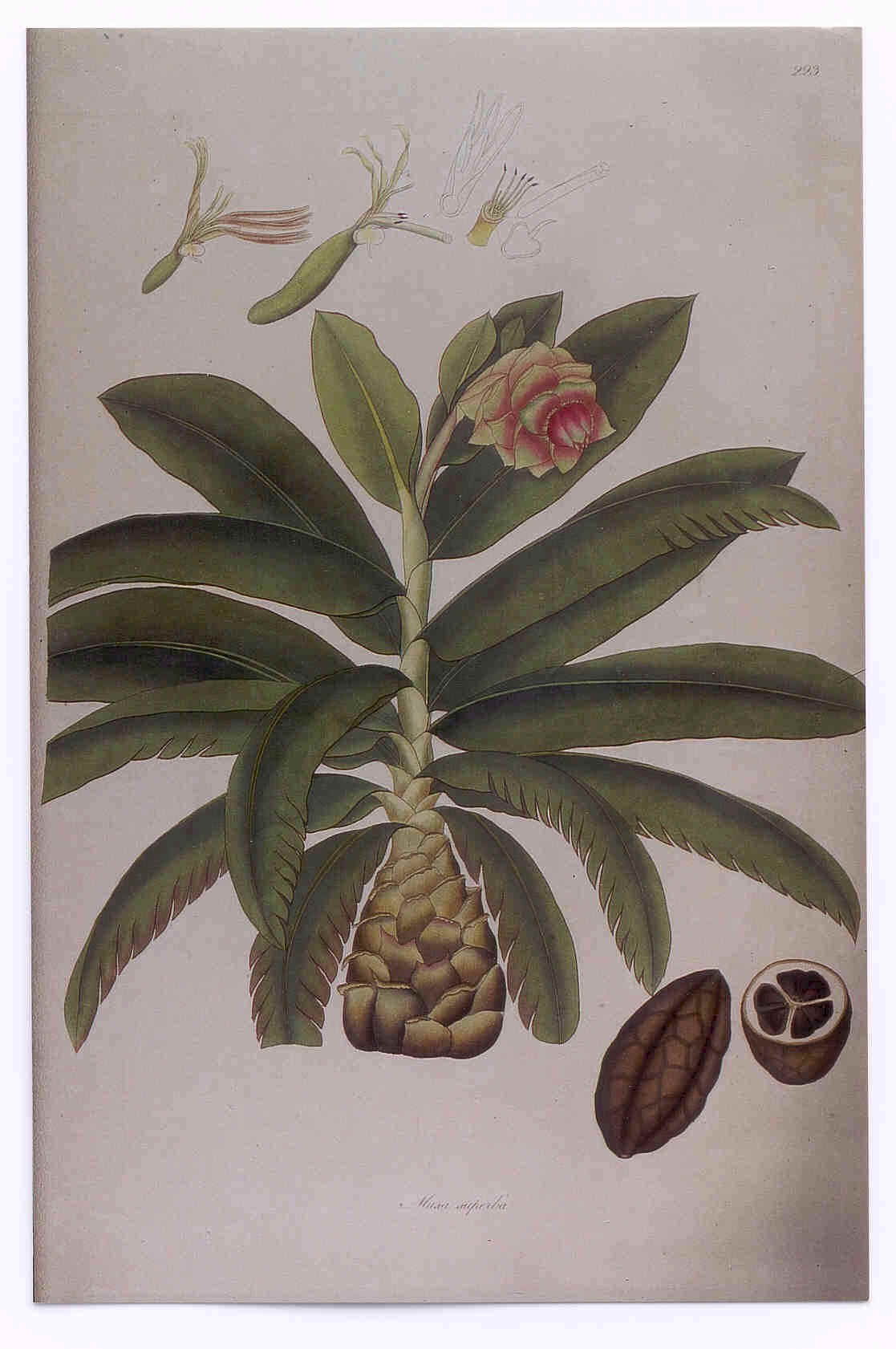 This is a page from William Roxburgh's Plants of the Coast of Coromandel, Vol. 3 published in 1819. It illustrates Ensete superbum, then referred to as Musa superba